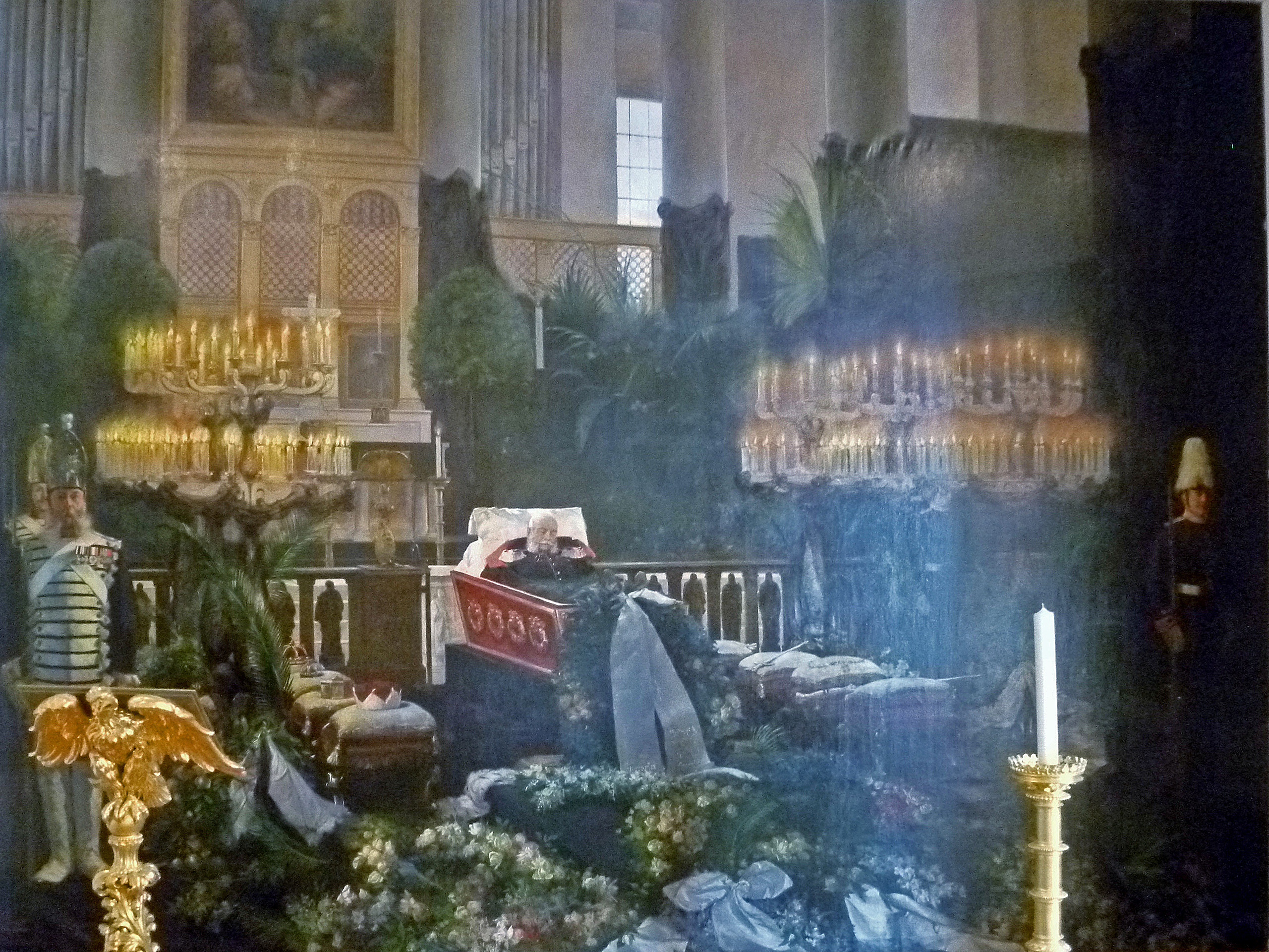 Painting of Emperor Wilhelm I lying in state on the bier in the Berlin Cathedral; by William Pape